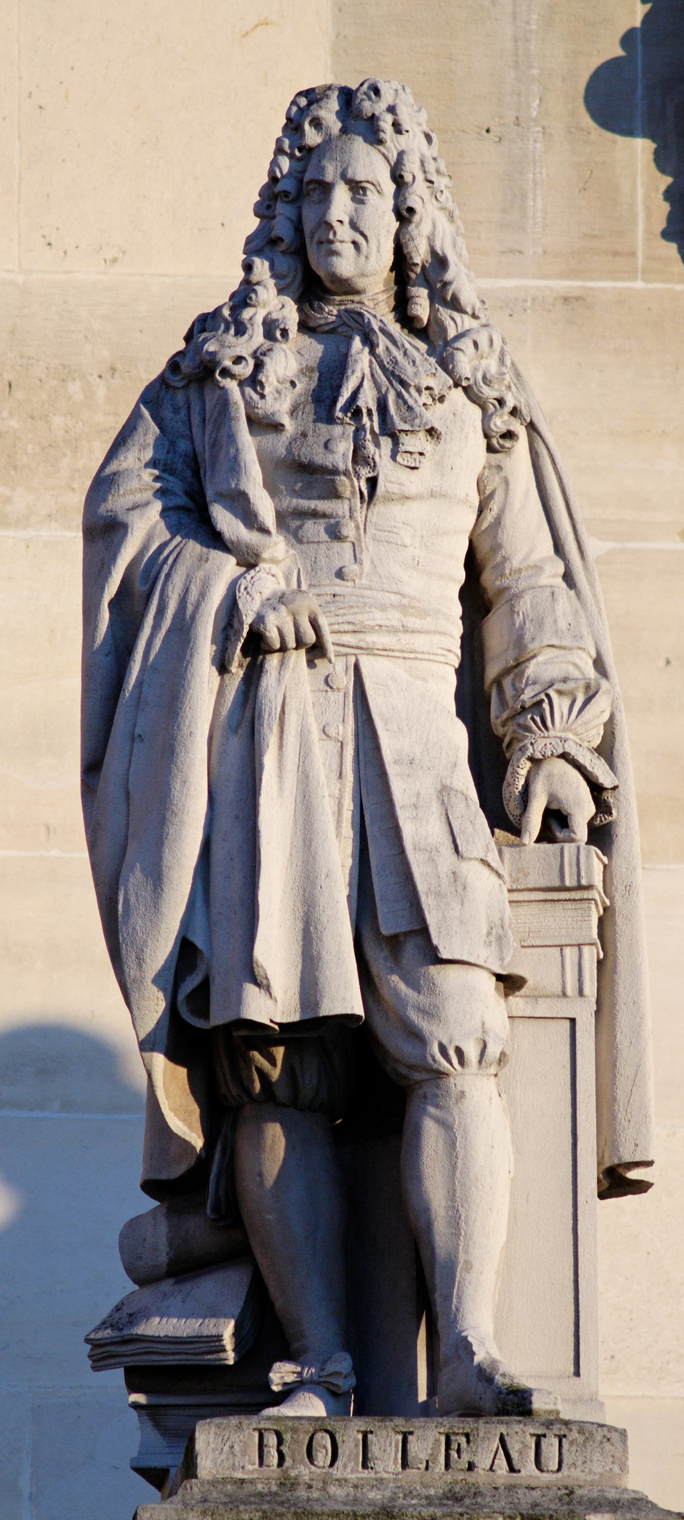 Nicolas Boileau by Charles Émile Seurre, aka Seurre the Younger. Stone, before 1853. 5th statue from Pavillon Rohan to Pavillon Turgot, Cour Napoléon in the Louvre.